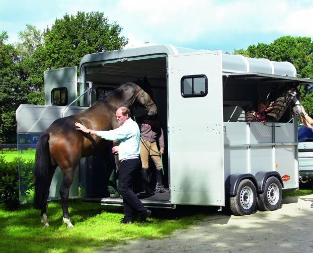 Böckmann horse trailer